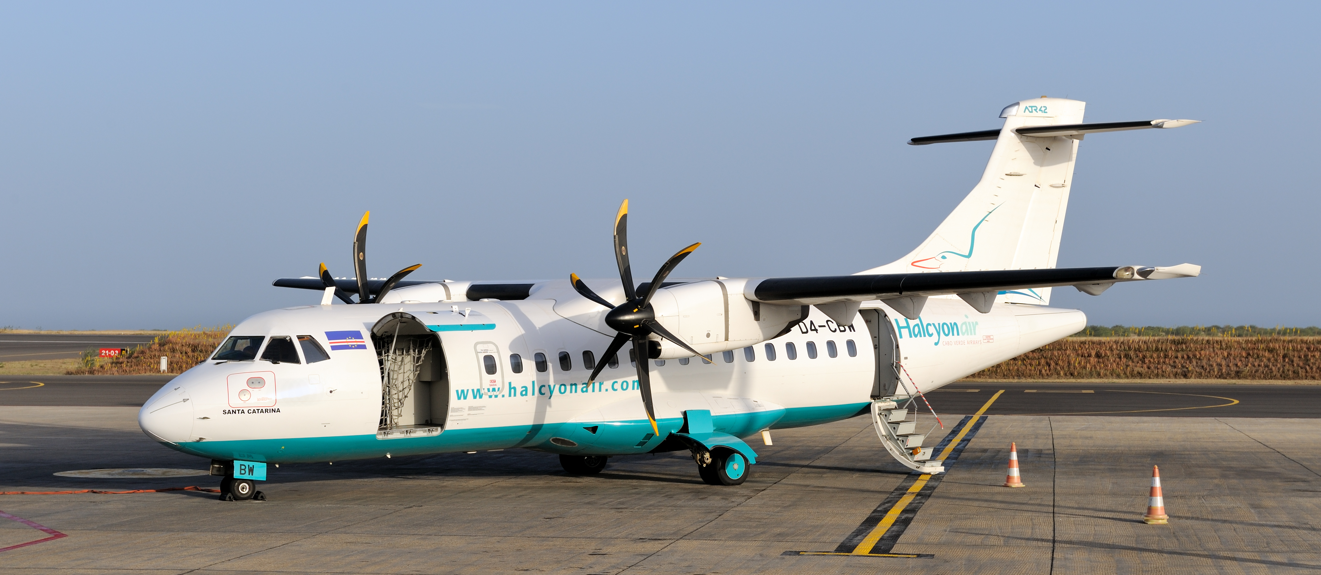 An ATR of the Cape Verdian airline Halcyonair at Amílcar Cabral International Airport in Espargos, Sal, Cape Verde. The name of the airline is derived from Halcyon, a genus of kingfisher birds, of which Halcyon leucocephala is widespread in the archipelago of Cape Verde.